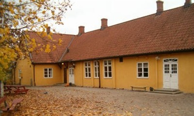 Trolle Ljungby school from 1841